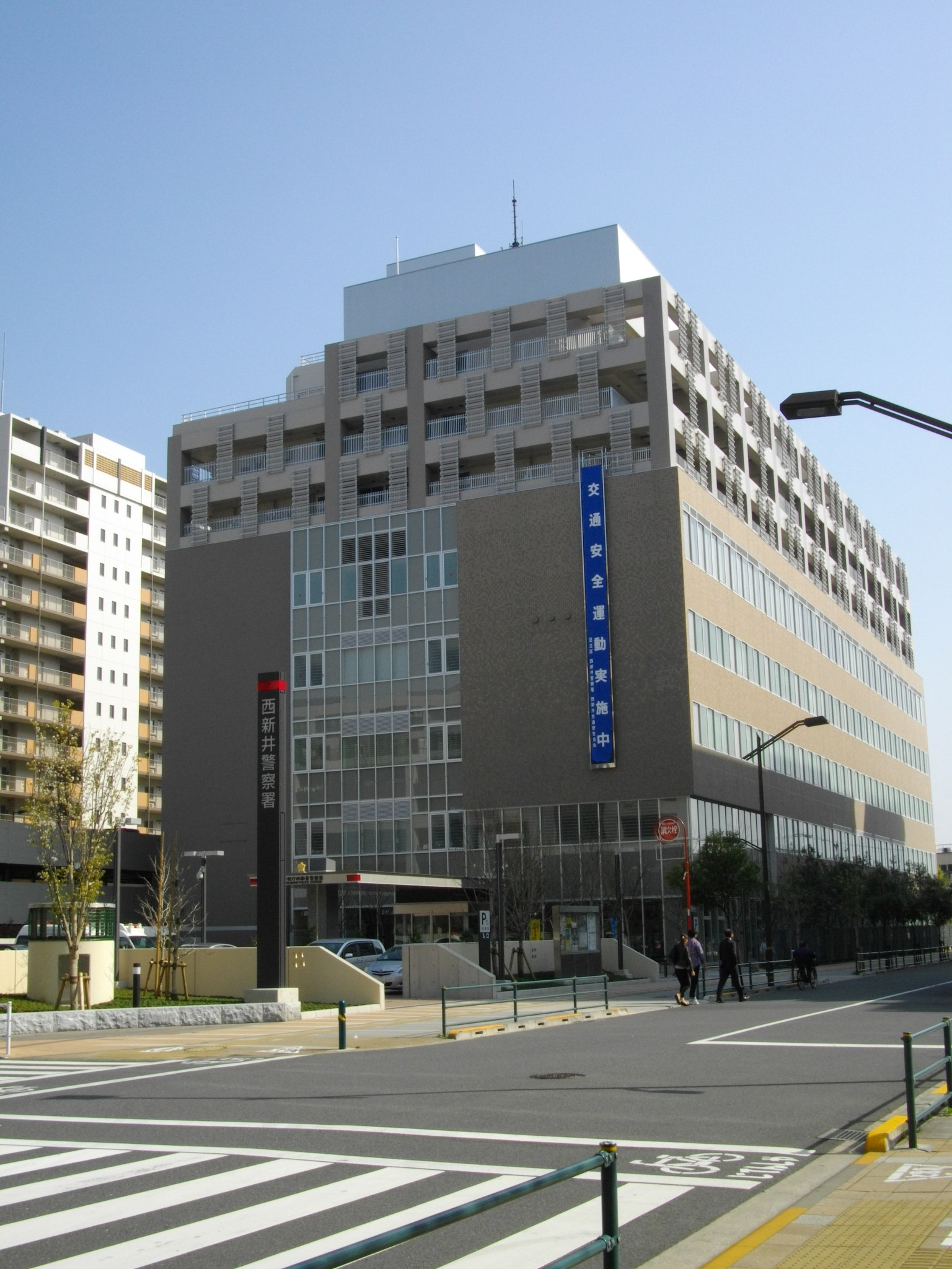 Nishiarai Police Station